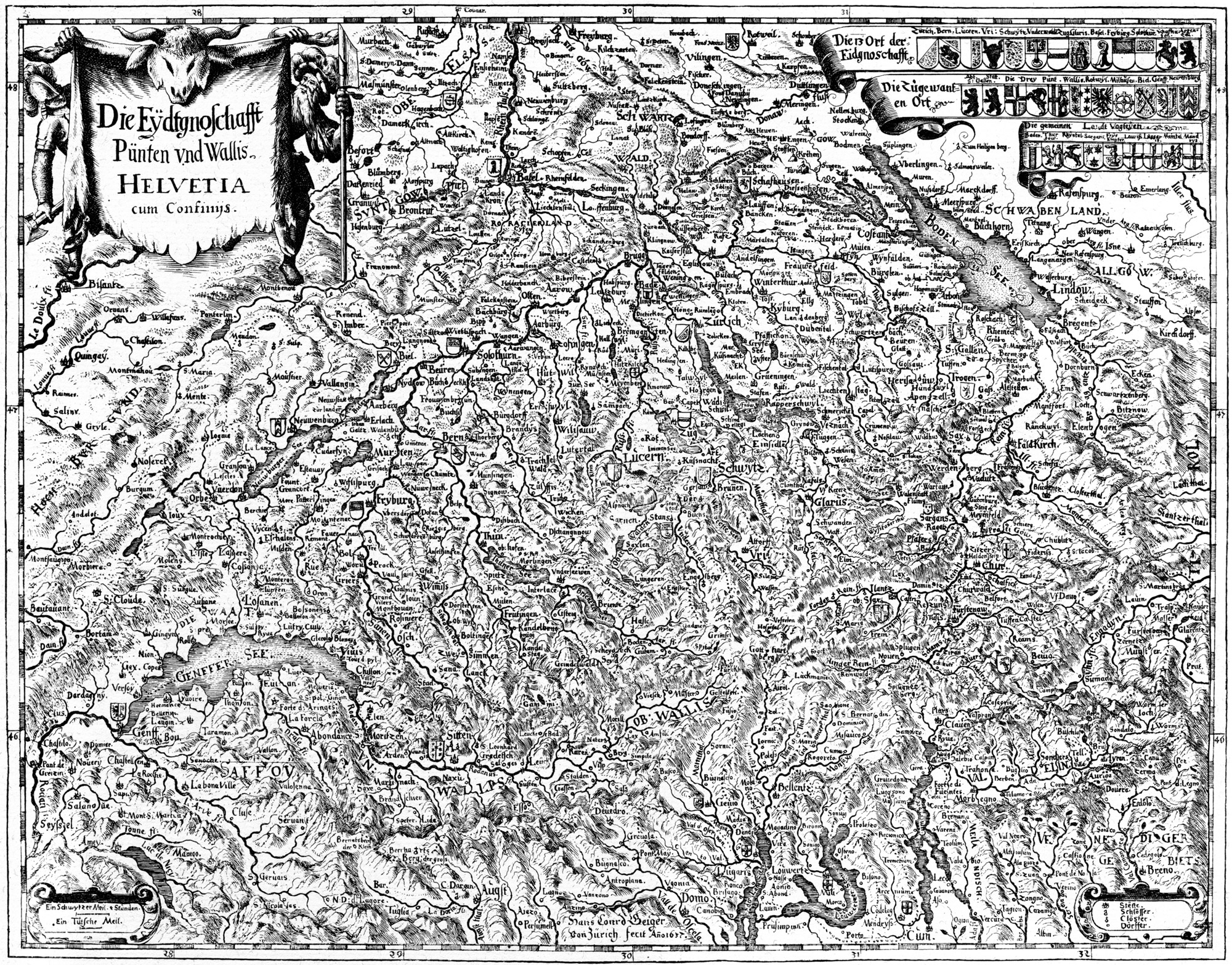 Map of the Old Swiss Confederacy of the year 1637. Original caption: "Die Eydtgnoschafft Pünten und Wallis, Helvetia cum Confiniis" – "The Confederacy, the Leagues and Wallis, Switzerland and neighbouring areas"